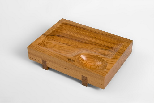 A Sashsimi plate in Yakusugi